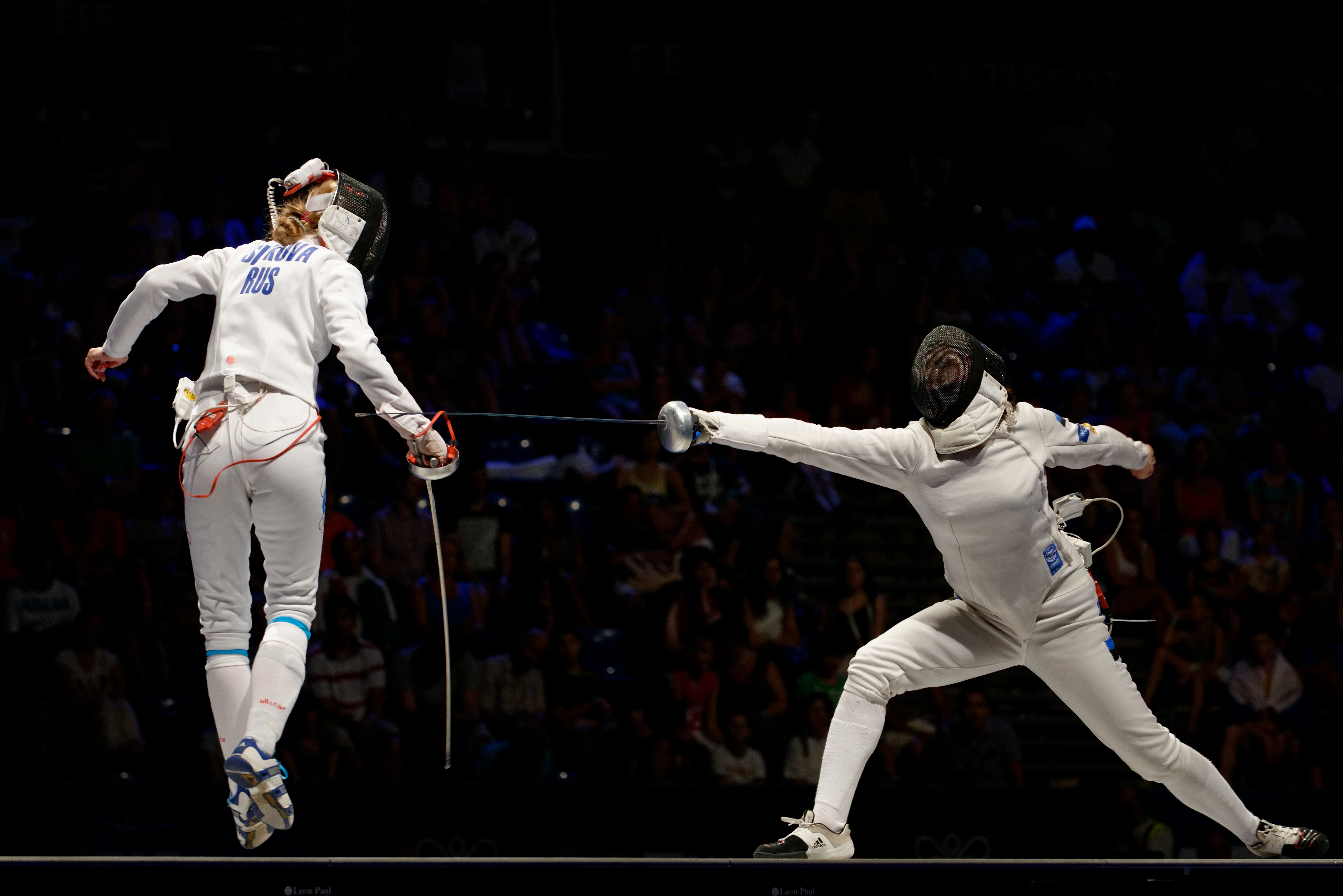 Anna Sivkova of Russia (L) fences against Estonia's Julia Beljajeva (R) in the women's épée final of the 2013 World Fencing Championships at Syma Hall in Budapest, 8 August 2013.